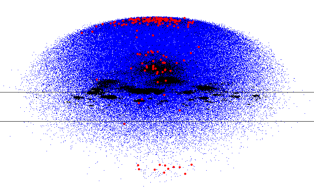 Monte Carlo simulation of runaway relativistic electron avalanche (RREA) in air. Electrons are shown in black, photons in blue, and positrons in red. The electric field is directed downwards and is only nonzero in the 100-meter thick plane between the two lines.